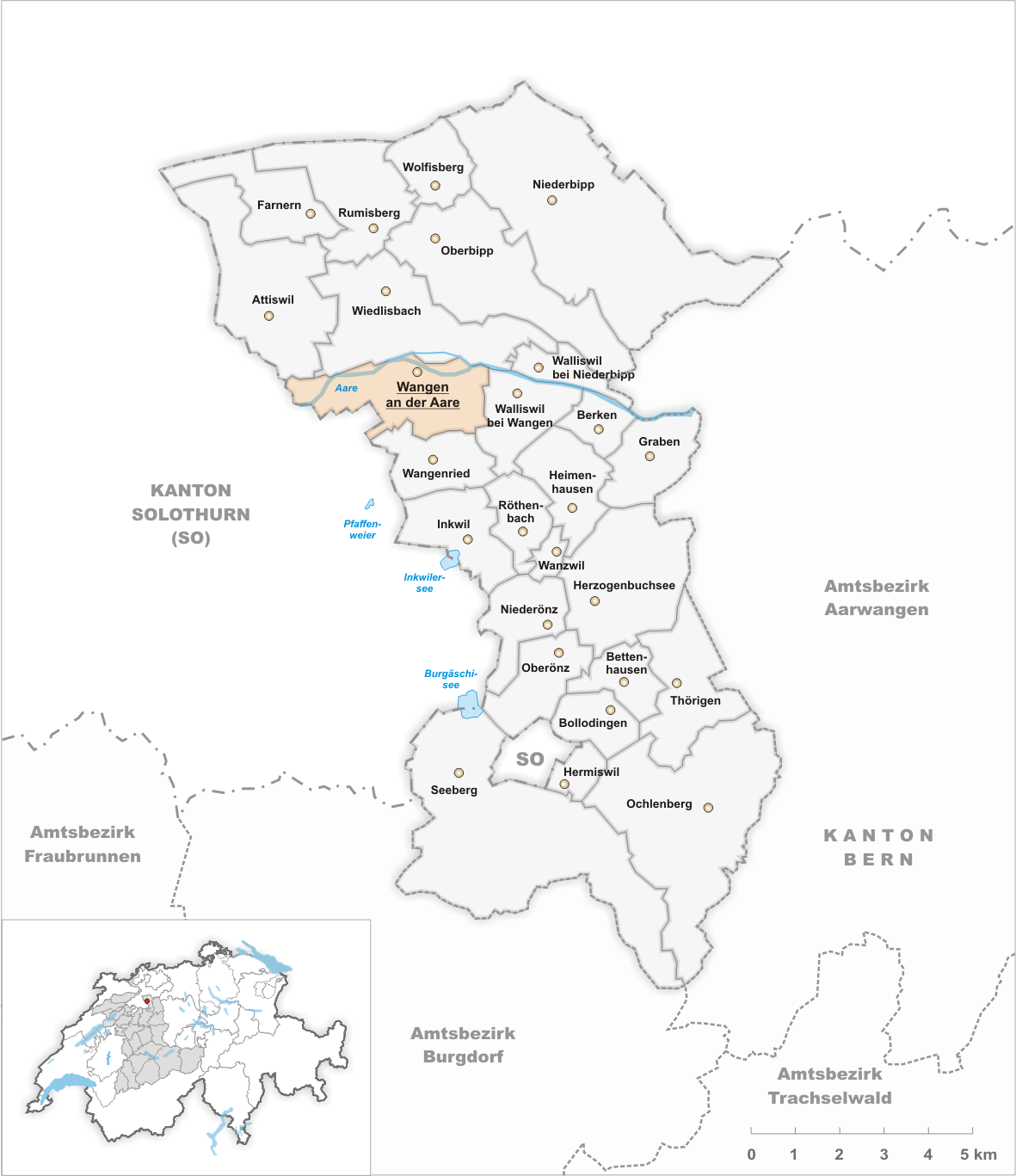 Municipality Wangen an der Aare